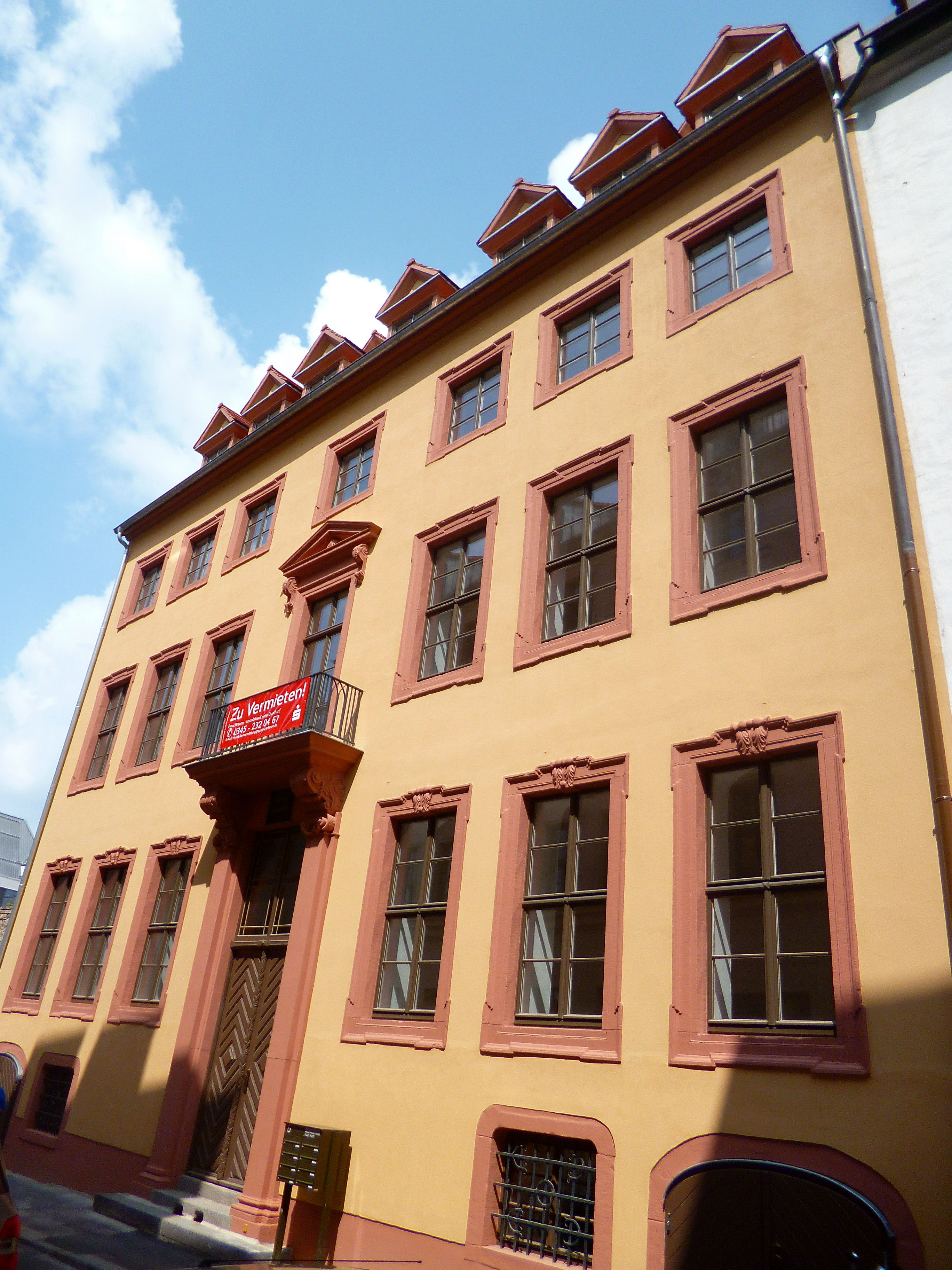 House No. 5, Brüderstrasse in Halle (Saale), former residential home of Peter Krukenberg